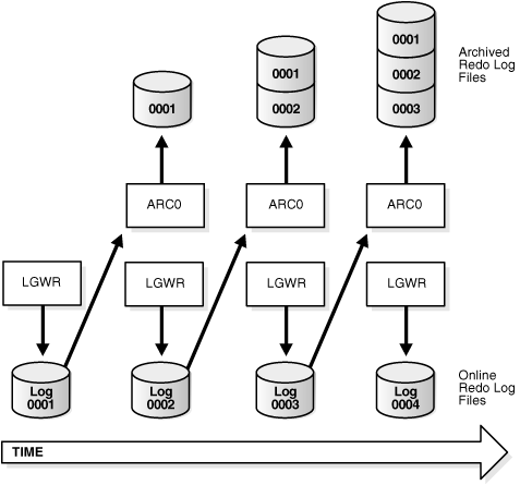 Archive Log Files Oracle